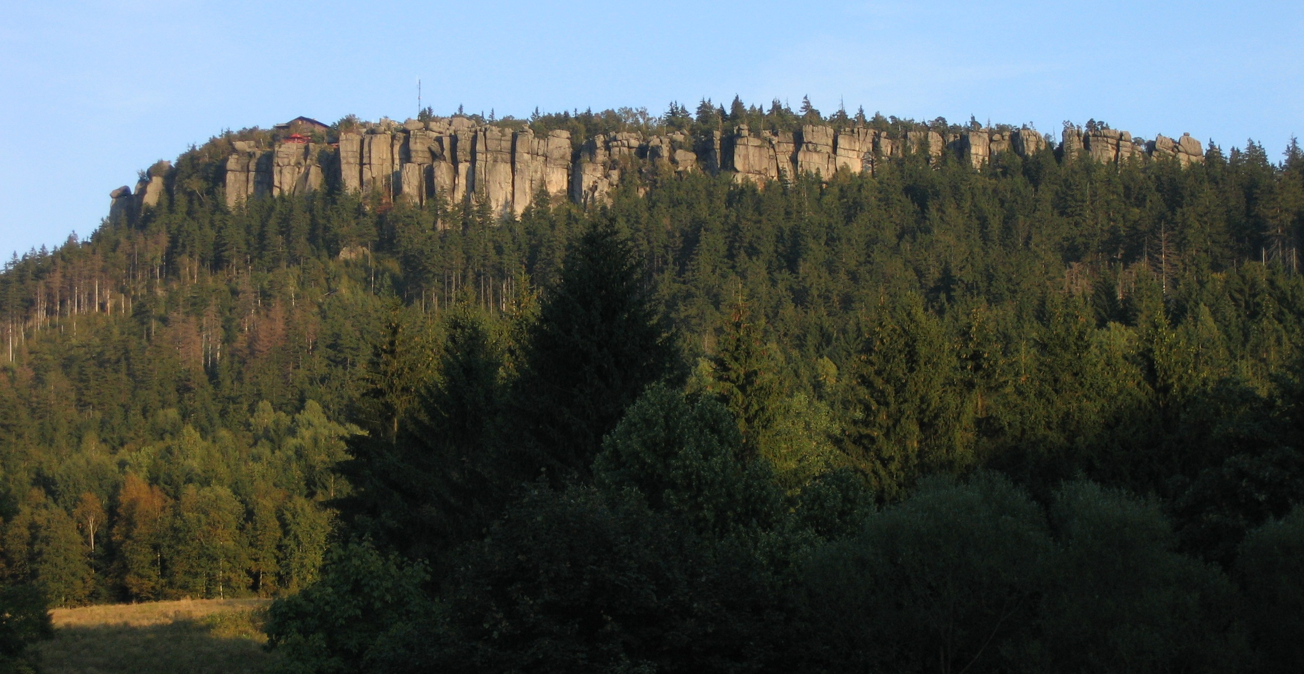 Grand Slotter, view from czechish side